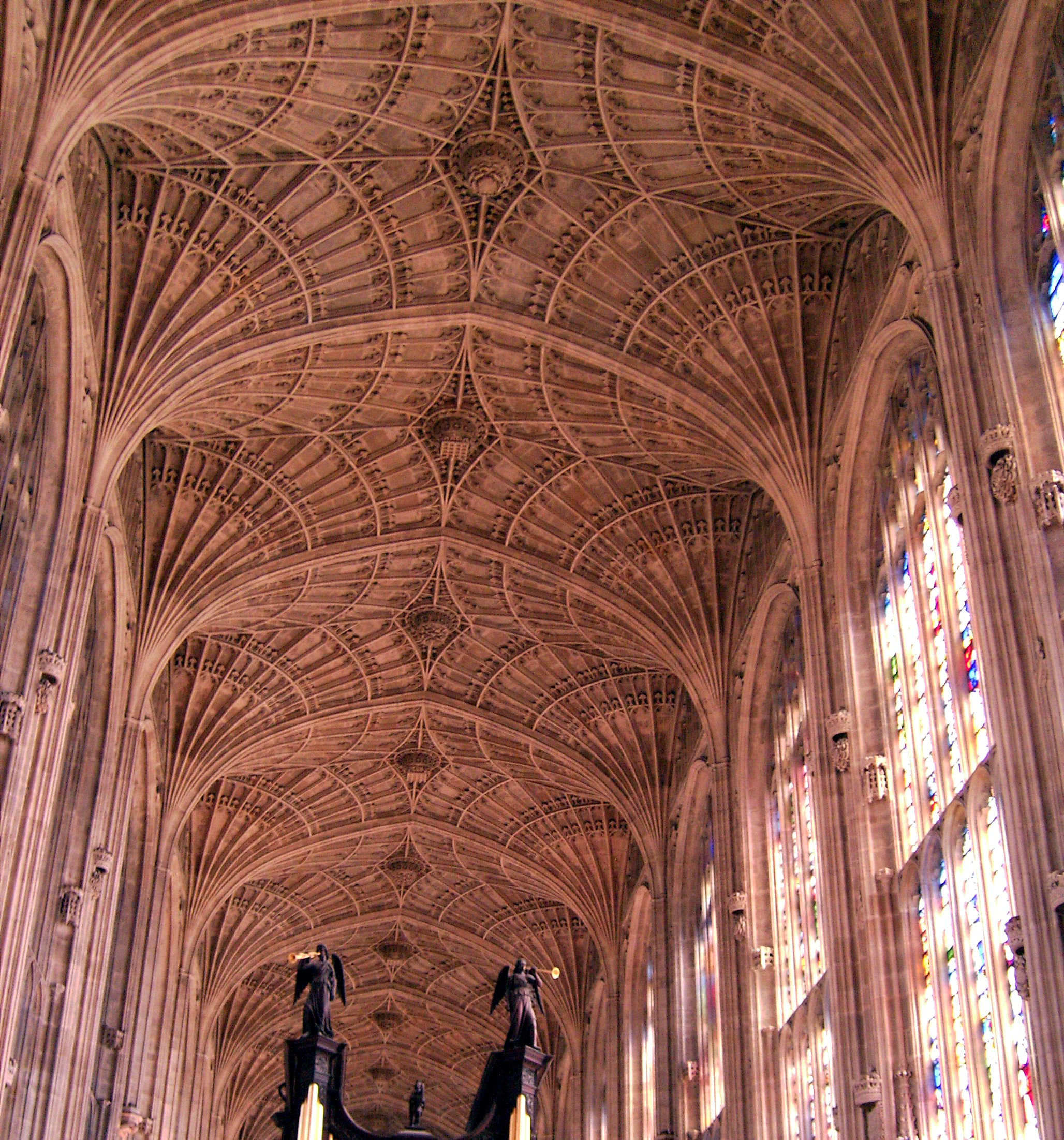 King's College Chapel, Cambridge, England